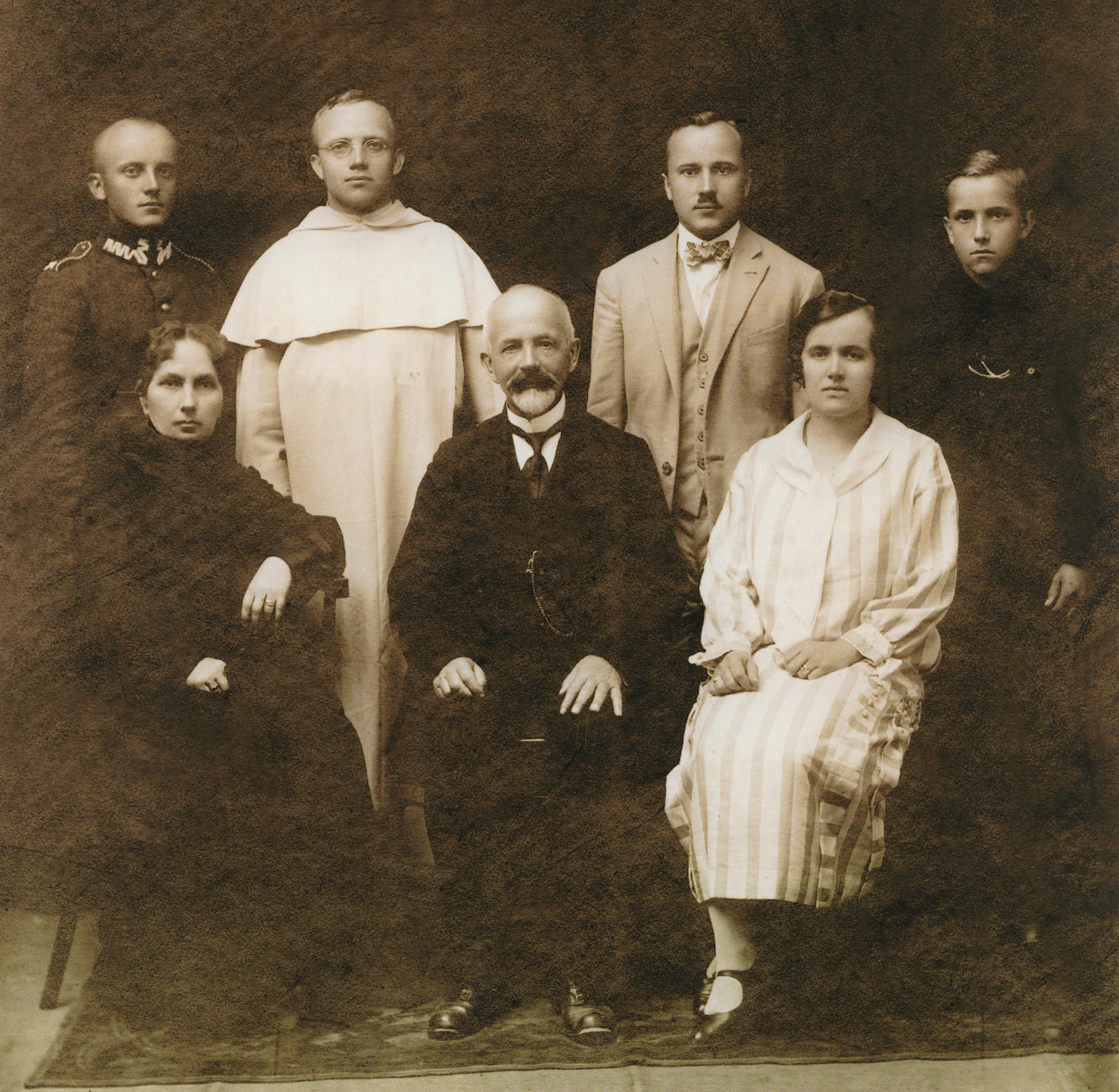 Kosiaty Family photo, about 1928. Clockwise from top-left: kpt. Jan Kosiaty (1901 - 1940), Michał Kosiaty (22.10.1893 - 15.05.1968), Edward Kosiaty (1892-1922?), Czesław Kosiaty (13.07.1910 - 20.07.1949), Zofia Kosiaty (1890-1963), Jan Kosiaty (1863-25.07.1928), Jadwiga Kosiaty (Magierowska primo voto Tabou) (1870–1956). Jan(1901 - 1940), Michał, Edward, Czesław and Zofia were Jan's children from the first marriage with Jadwiga Michalska (1871-1914). Apart from these children they were also parents of Aleksander (1892-1923) and Romuald(?) (1892?-) Jadwiga Tabou was his second wife.